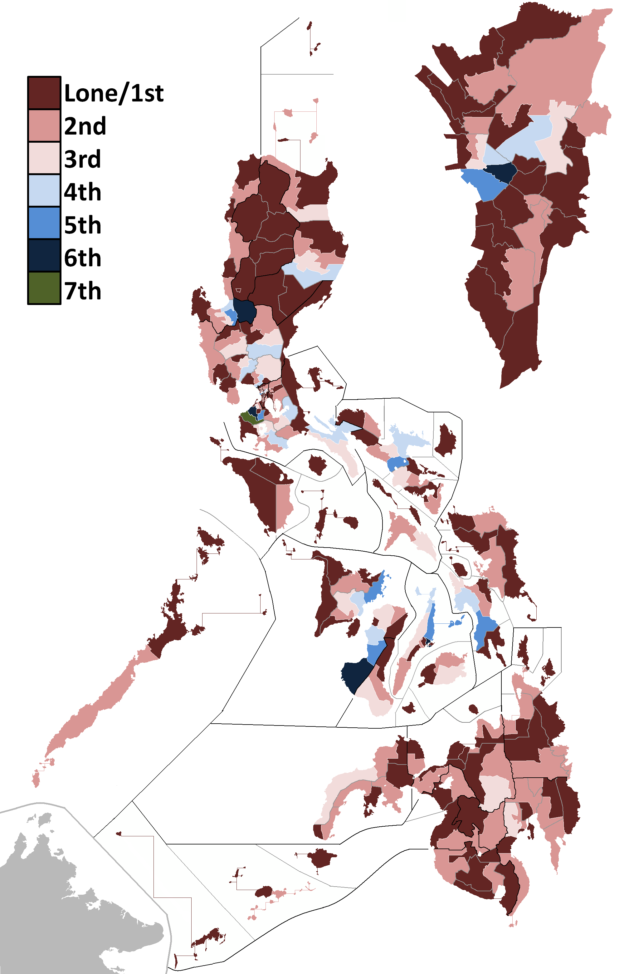 Philippine legislative districts and their designations. Note that the ordinal designations may not denote how many legislative districts are there in a province; many component cities have representation on their own.